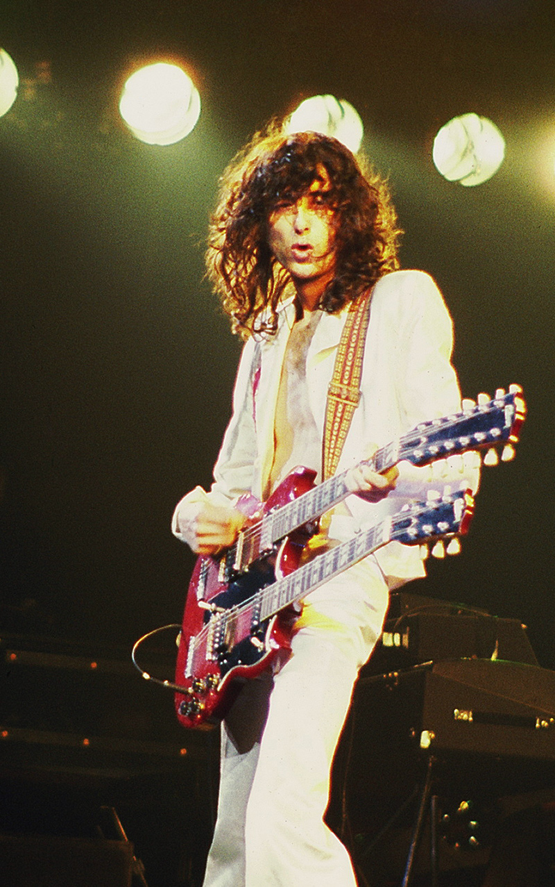 Jimmy Page of Led Zeppelin, in concert in Chicago, Illinois